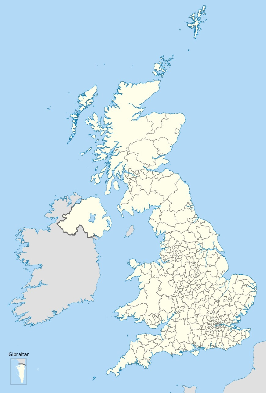 The 382 voting areas under the legislation for the 2016 EU Referendum in the United Kingdom. Note this image is purely intended to show just the voting areas and not show any results.